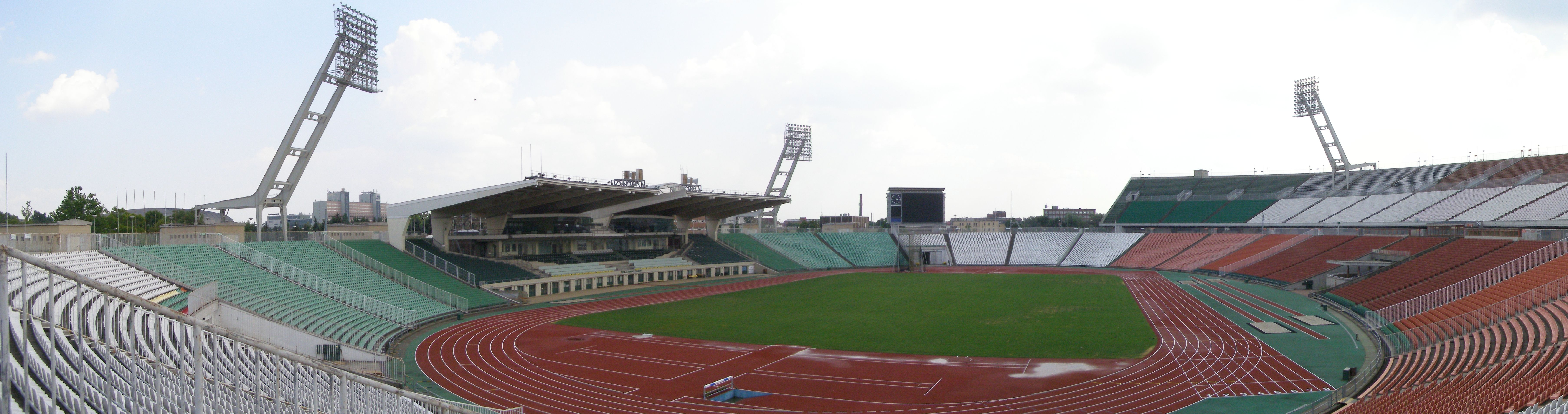 Budapest - Ferenc Puskas Stadium